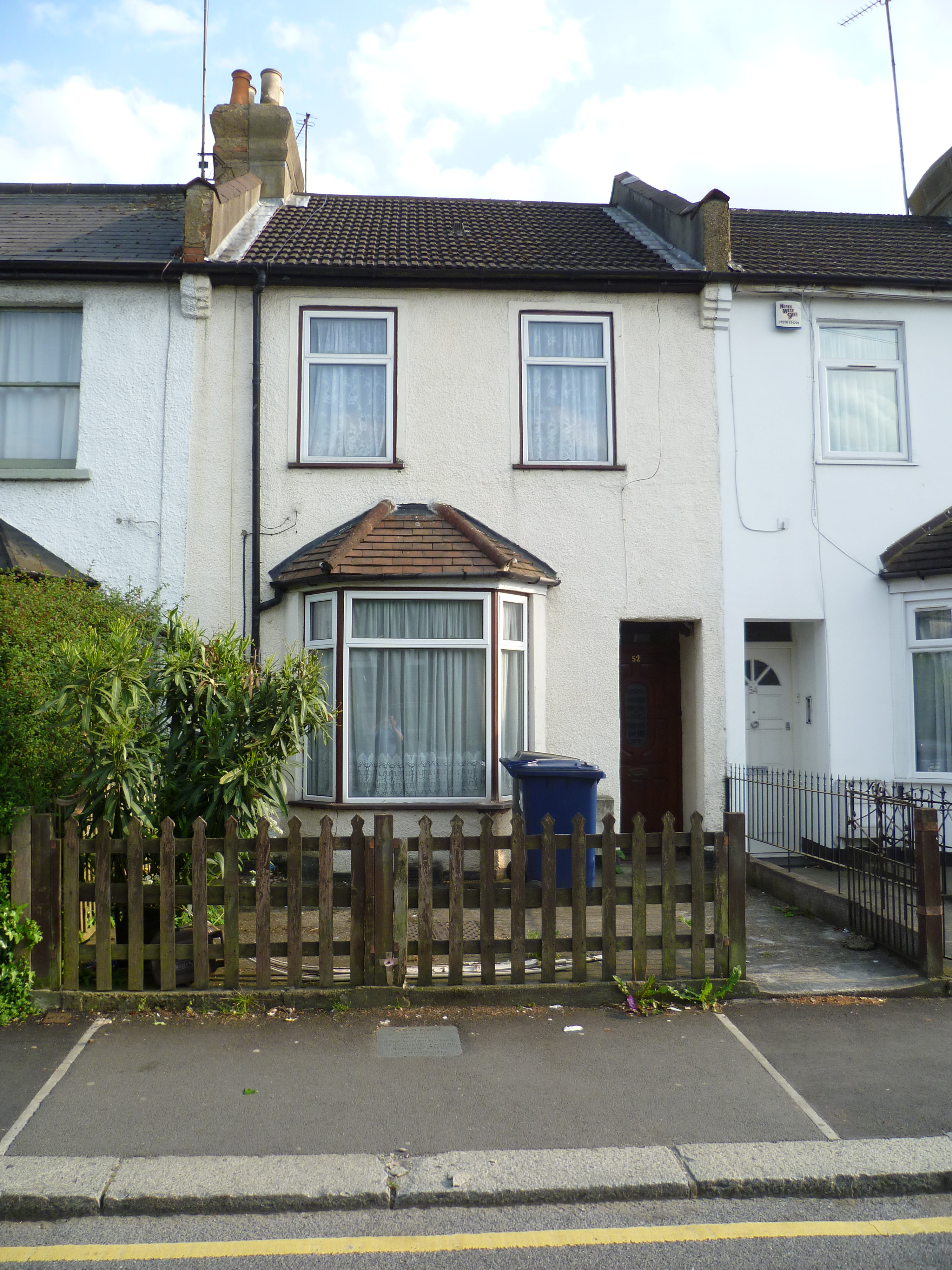 London